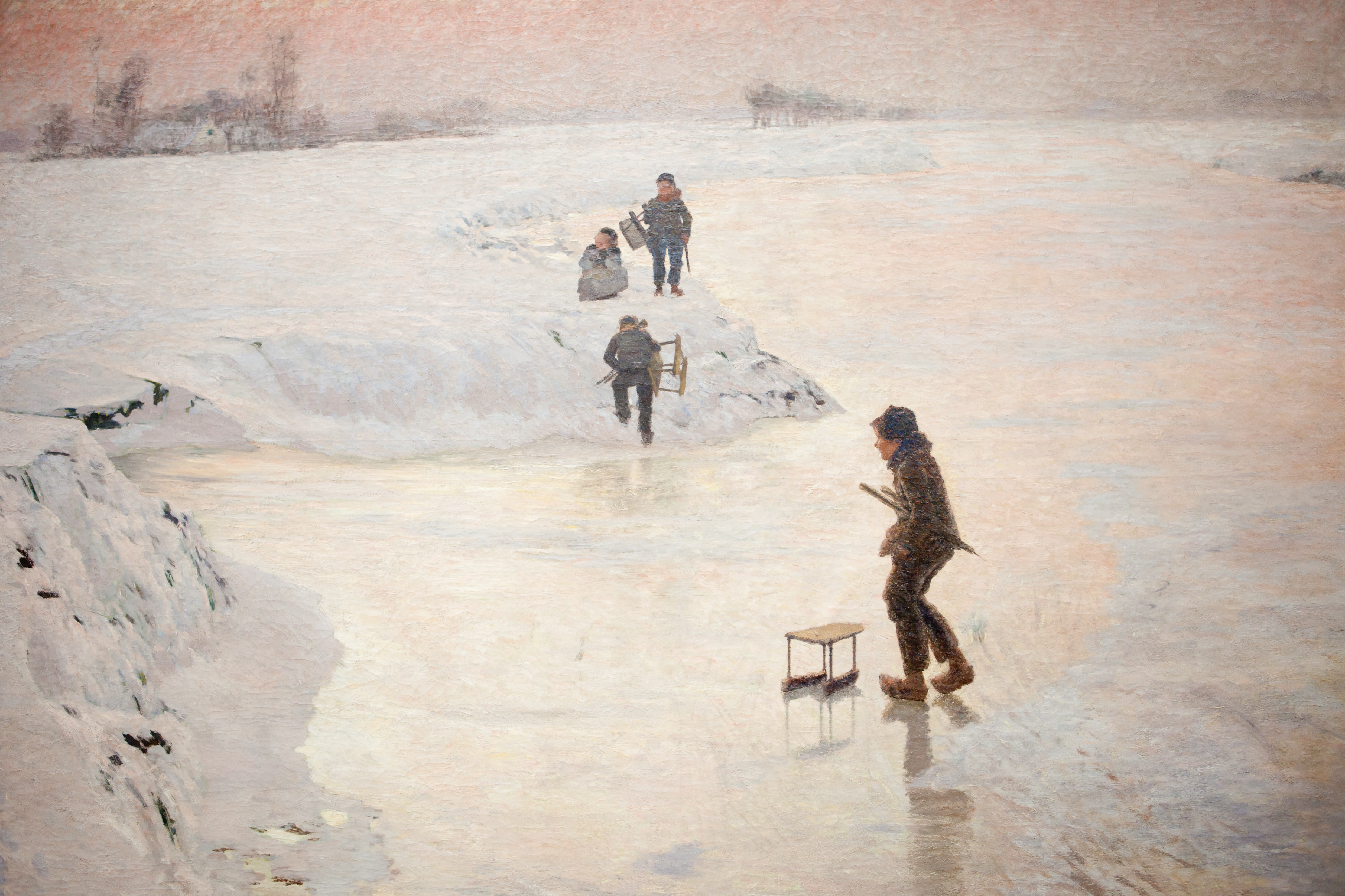 This is a file created at the museum: Museum of Fine Arts in Ghent